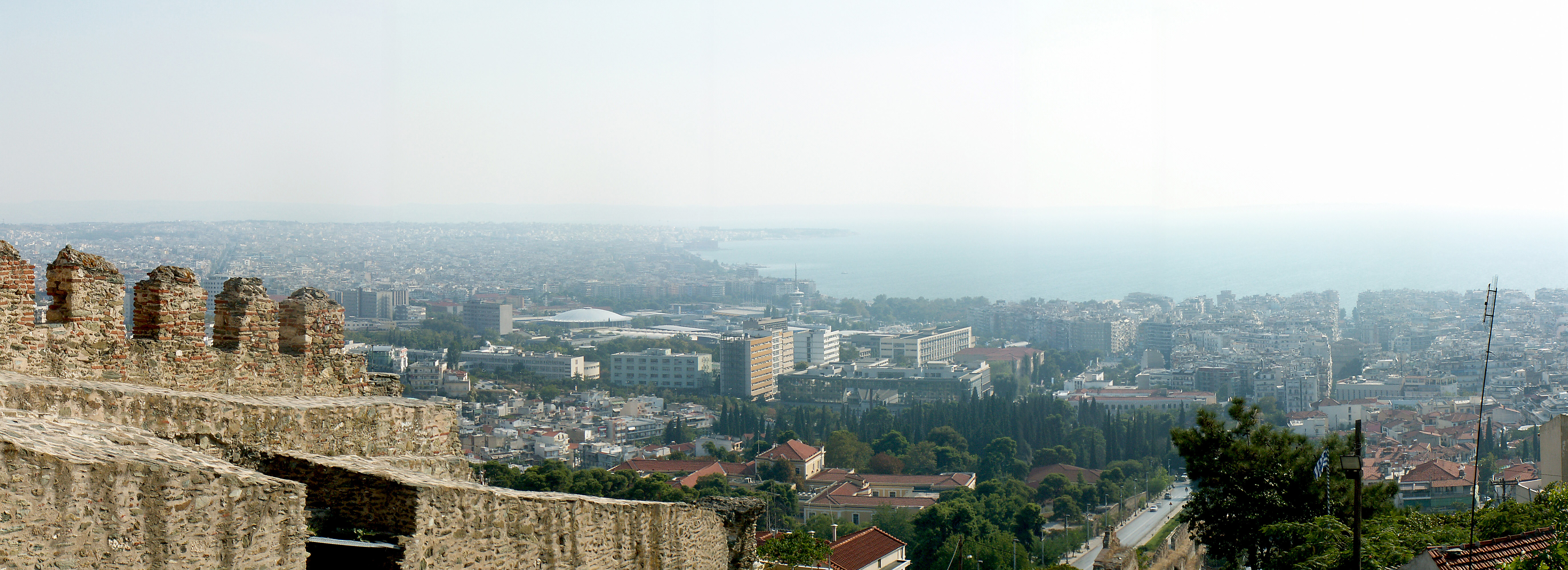 Thesaloniki. Panorama of the seashore viewed from the old town walls.